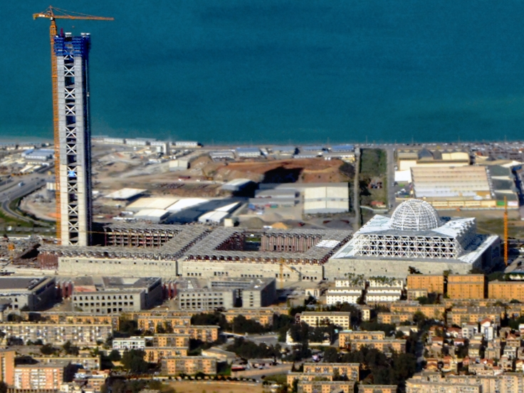 Djamaa el Djazaïr (Great Mosque of Algiers)